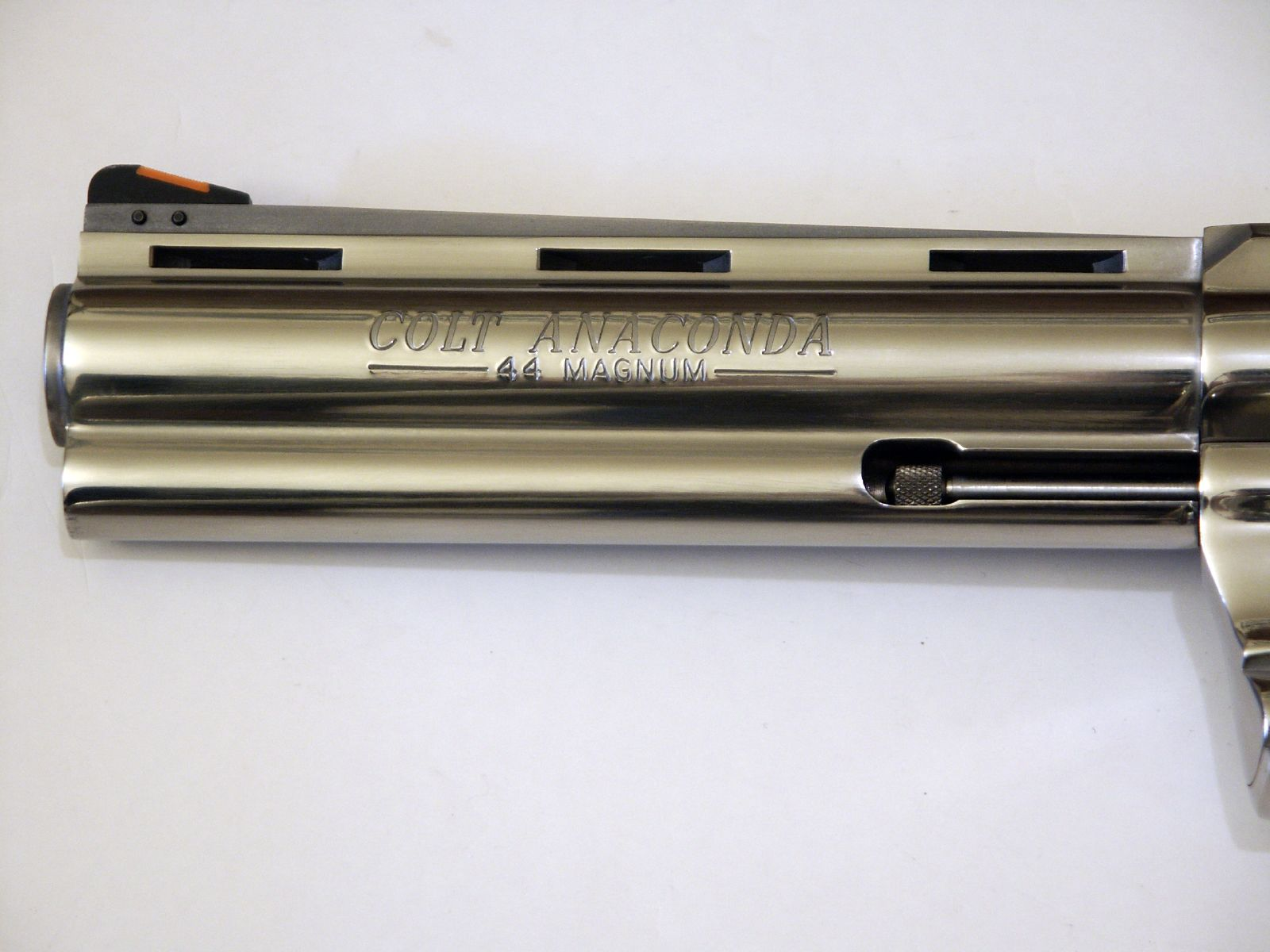 Colt Anaconda .44 Magnum 6 inch Barrel